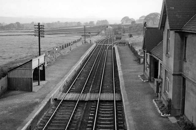 Bodfari Station. View westward, towards Denbigh; ex-LNW Chester - Denbigh - Corwen line, which was closed 28/4/62.